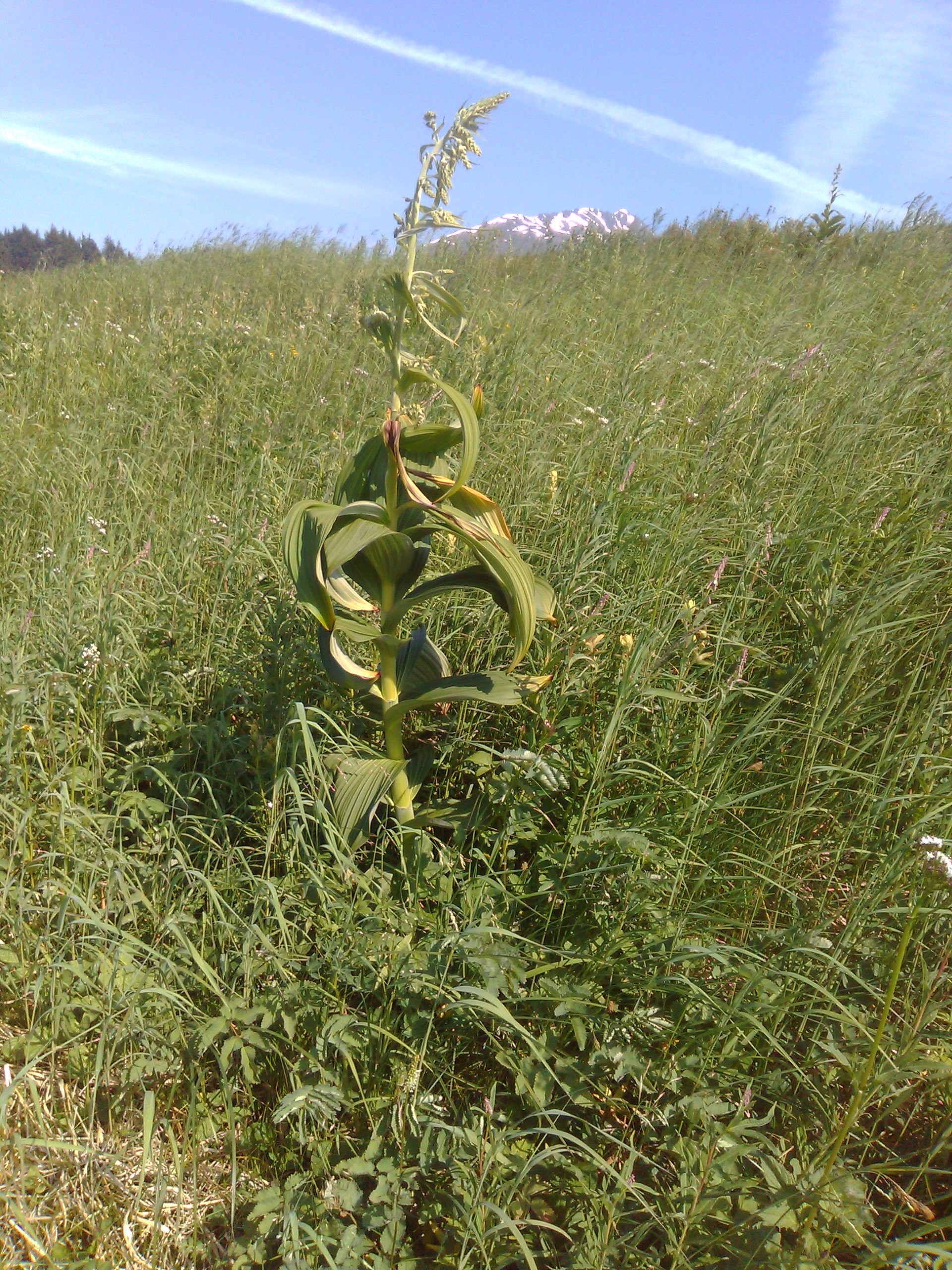 False hellebore (Veratrum) found in alpine-tundra/forest transition areas of Alaska's mountainous regions. A highly toxic plant. This pic was taken at Turnagain Pass, Alaska in late summer, when the plant begins to bloom. This particular plant is about 5 feet tall, but can easily reach over 6 feet.